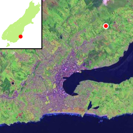 Map showing location of Bethune's Gully, Dunedin, New Zealand. Based on NASA satellite map